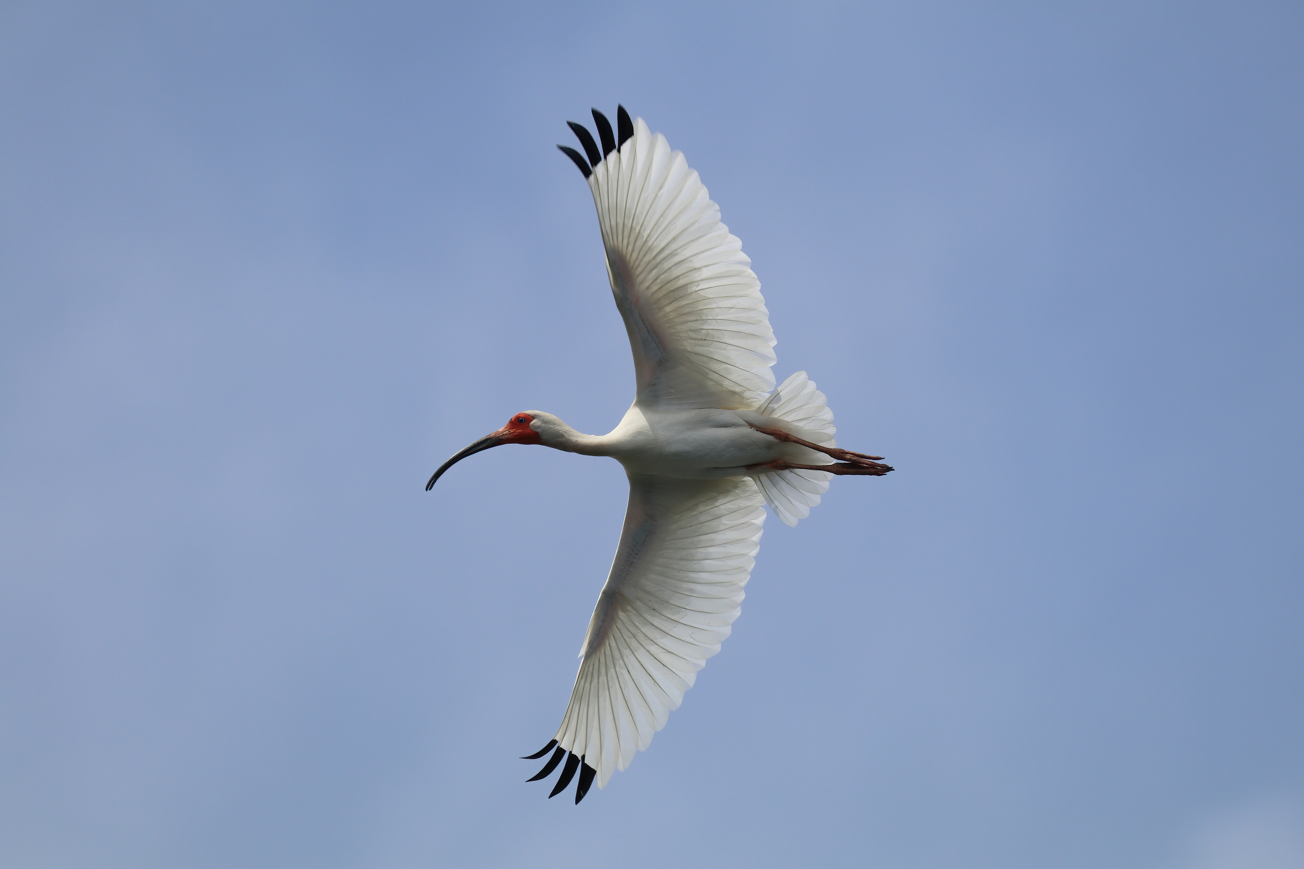 White ibis (Eudocimus albus ramobustorum) in flight, off Boca Chica, Panama